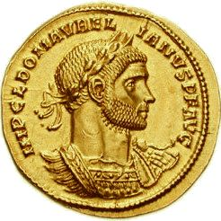 AURELIAN. 270-275 AD. Aureus (21mm, 4.70 g, 6h). Mediolanum (Milan) mint, 3rd emission, 271-272 AD. IMP C L DOM AVRELIANVS P F AVG, laureate and cuirassed bust right, wearing aegis V-IRTVS AVG, Mars advancing right, holding spear forward and trophy over left shoulder holding spear; at feet, bound captive seated right. RIC V 15 (Rome) and 182 (Siscia); MIR 47, 127p0 (8) = Calicó 4050 (this coin); cf. BN 424-435; cf. Cohen 269.